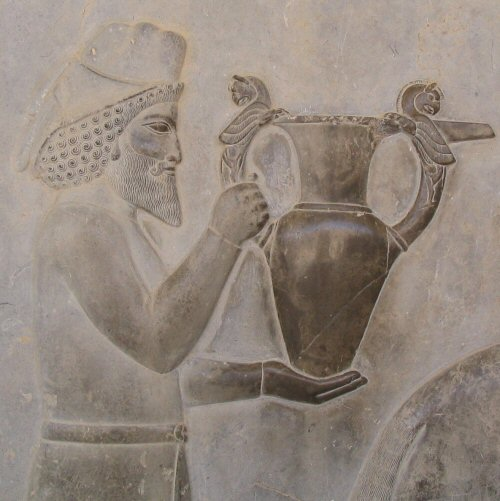 Armenian gift bearer at Persepolis.